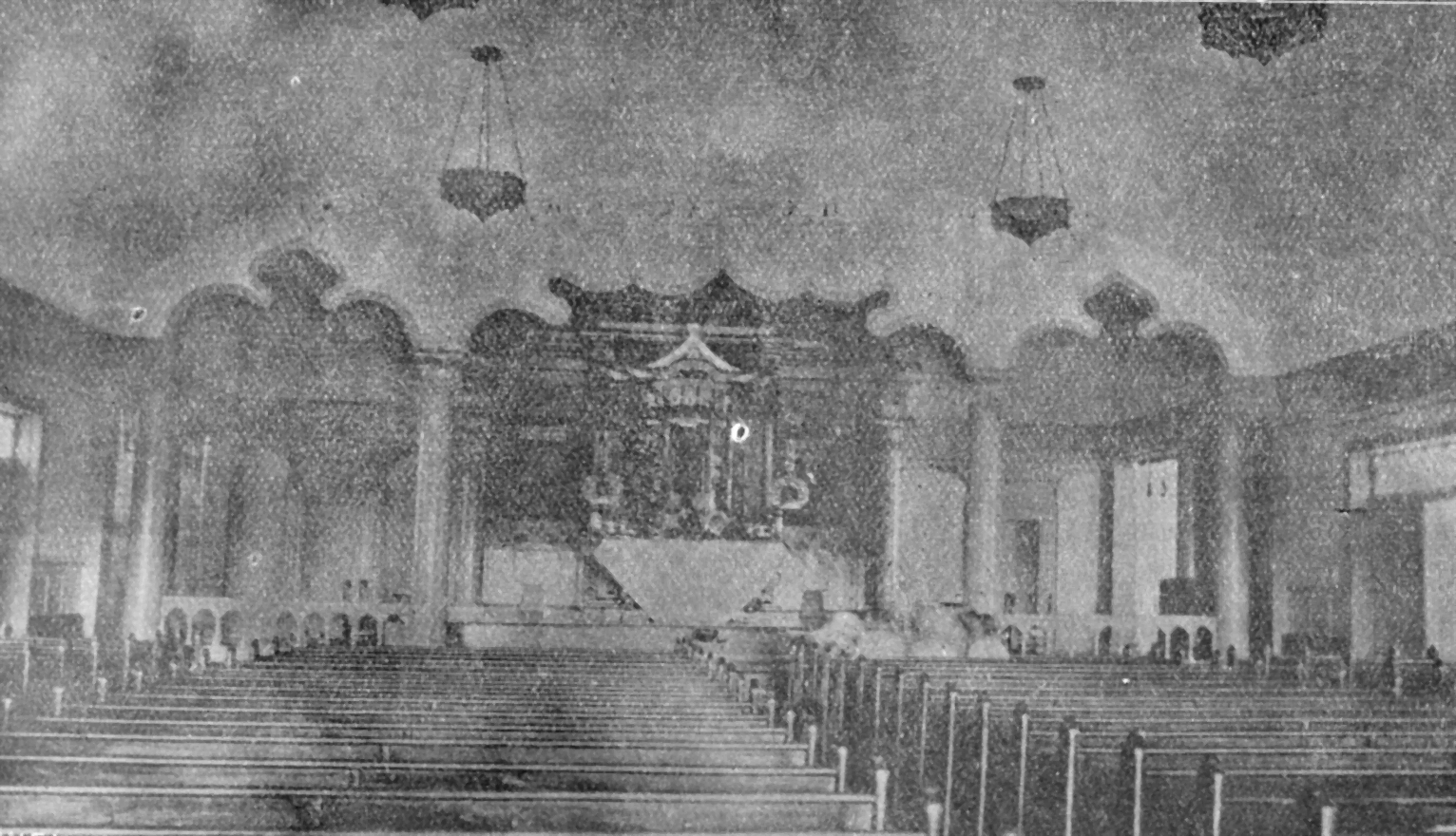 Interior of the newly consecrated Higahsi Hongan-ji in Los Angeles, corner Central Ave. / East 1st St.